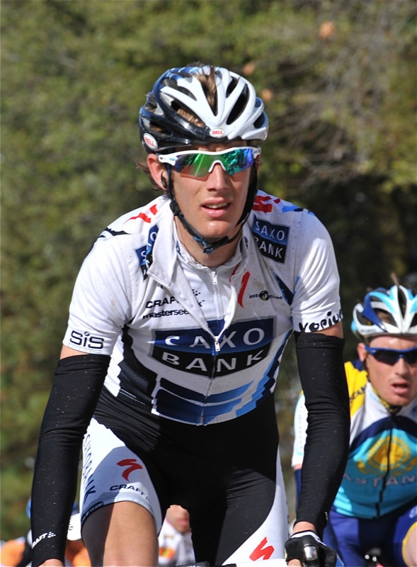 Andy Schleck at Tour of California 2009.